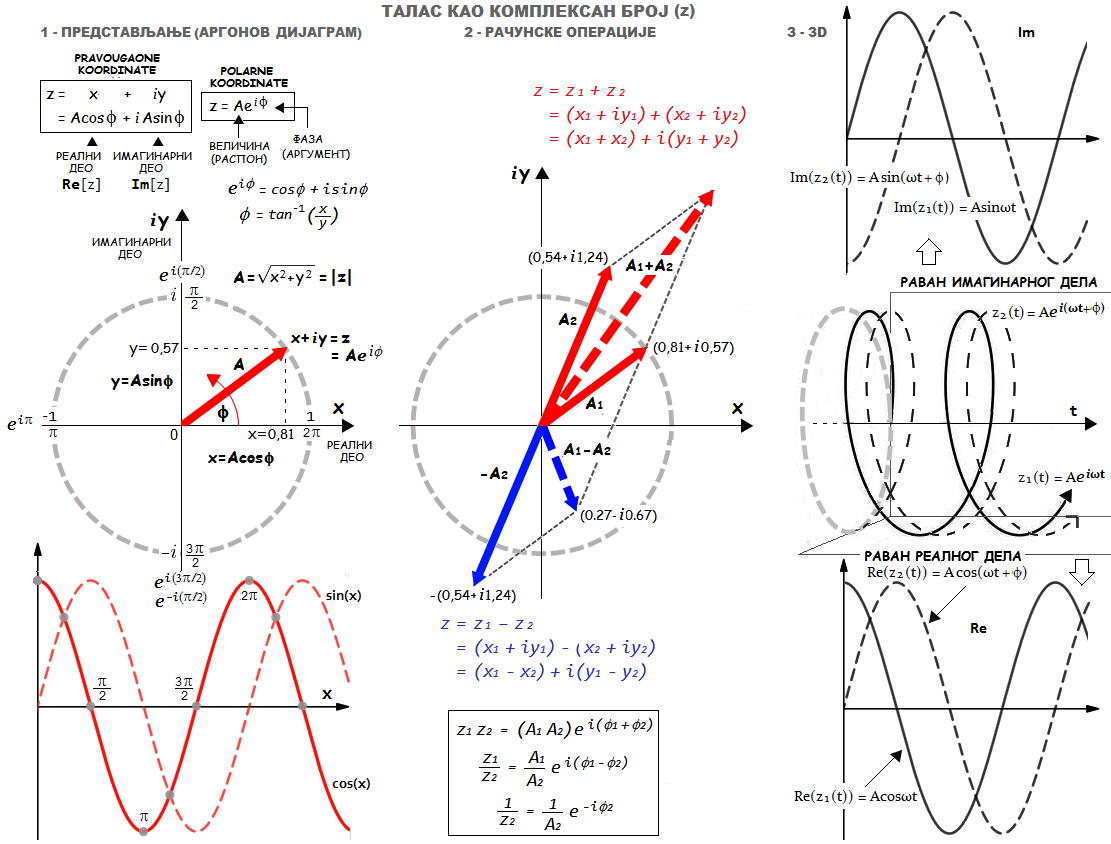 КОМПЛЕКСАН ТАЛАС